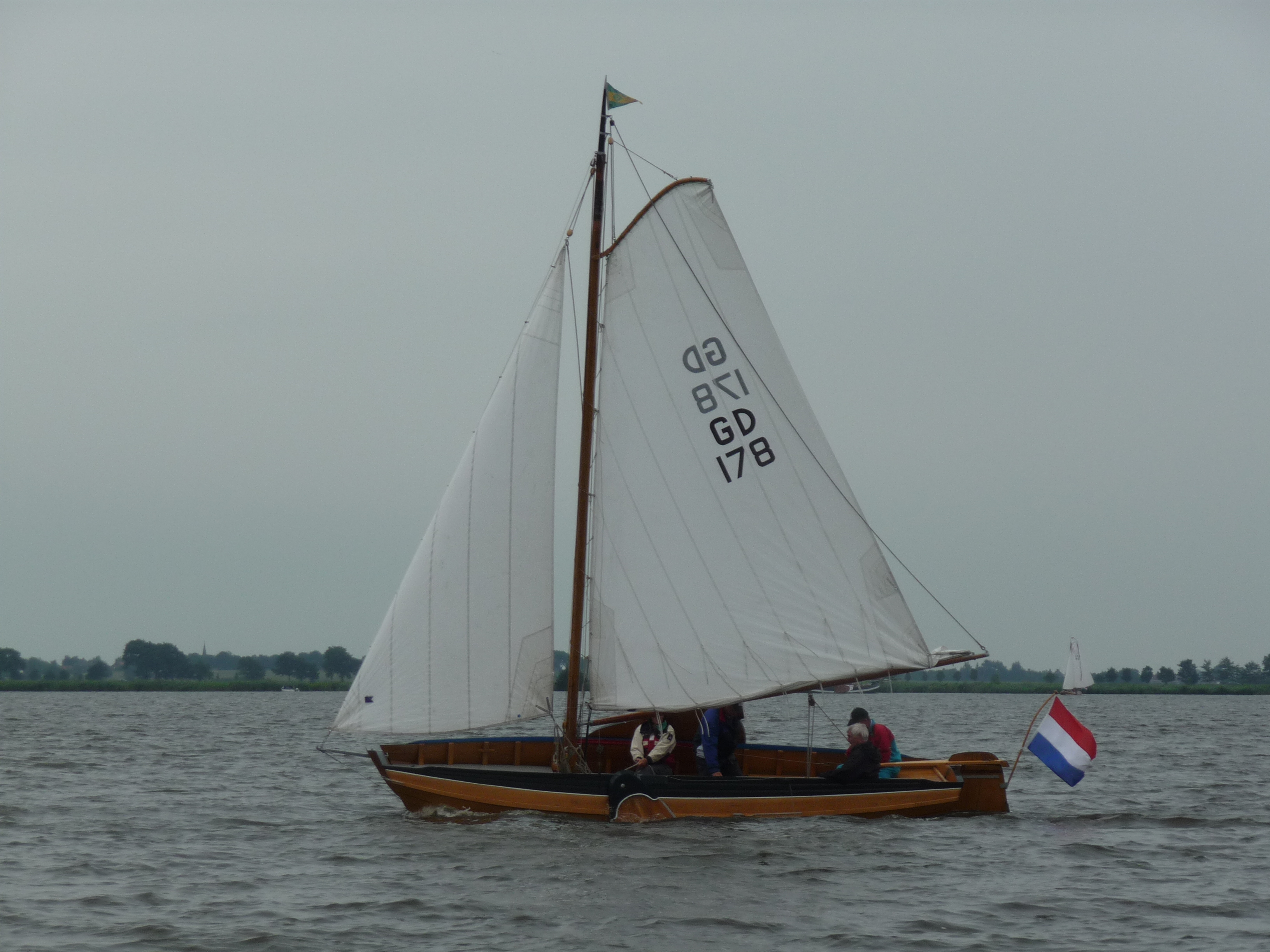 The schouw Motketel (GD178). The photo was shot during the admiraalzeilen at the VSRP 2010 reunion. SSRP entry for Motketel (GD178)